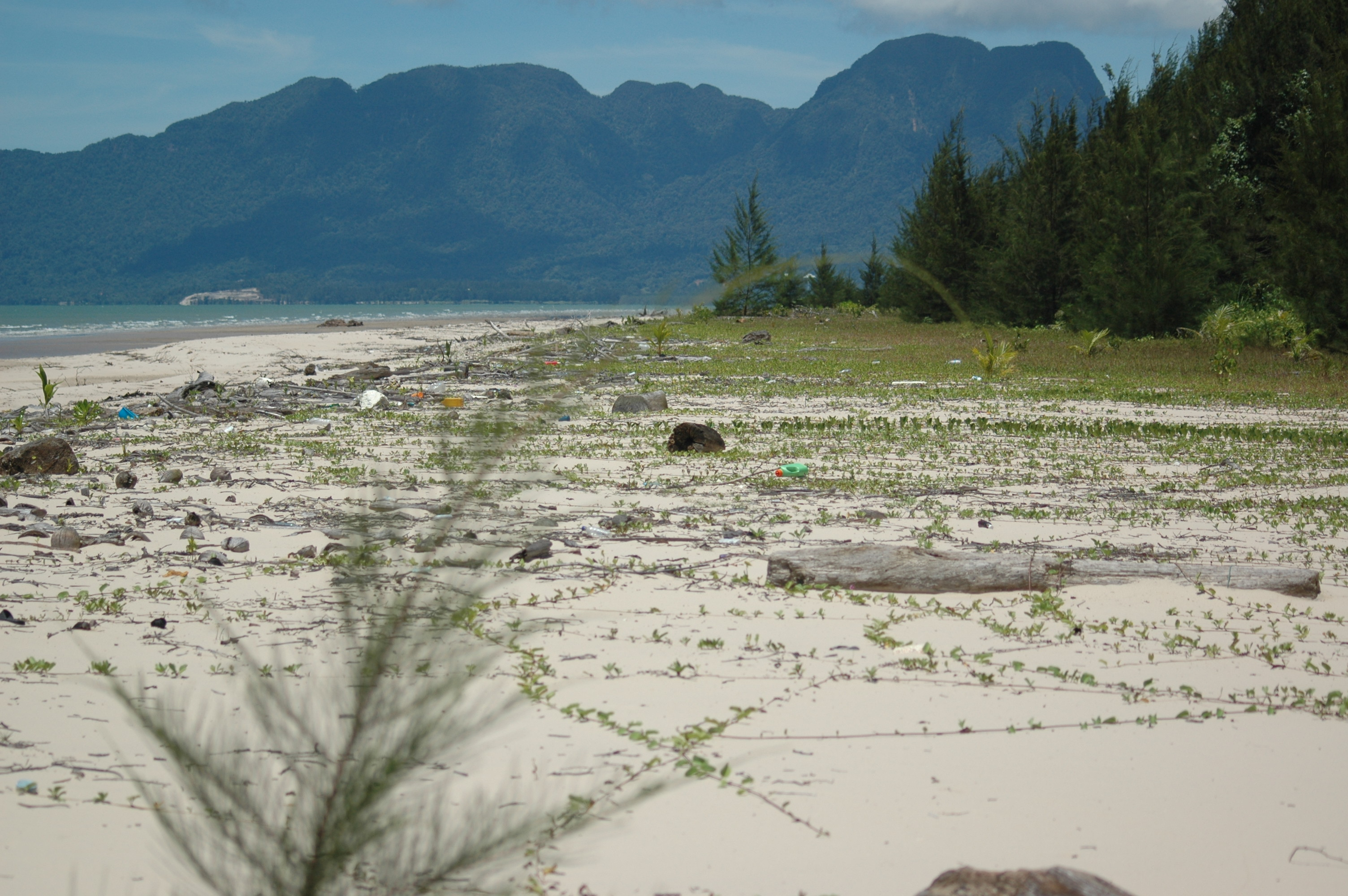 Northern tip of KWNP (Kuching Wetlands), towards Mt. Santubong.